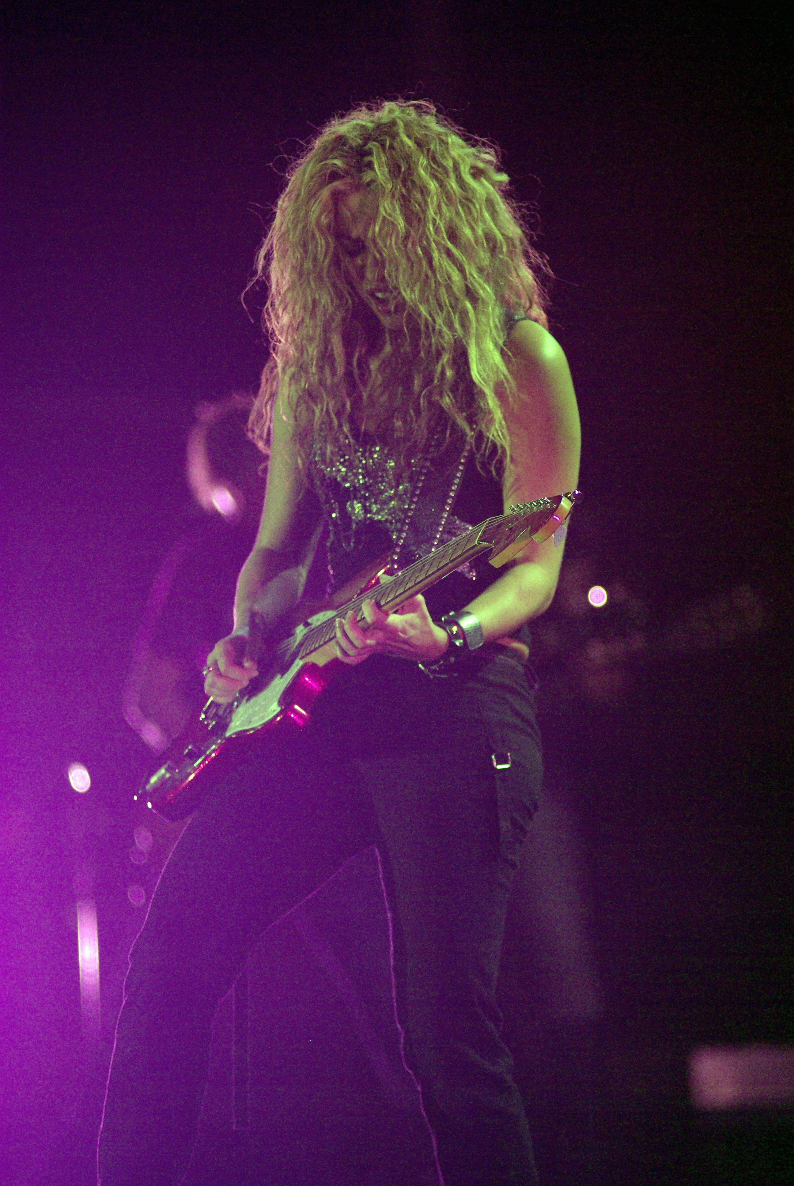 Shakira at the Rock in Rio concert in 2008.